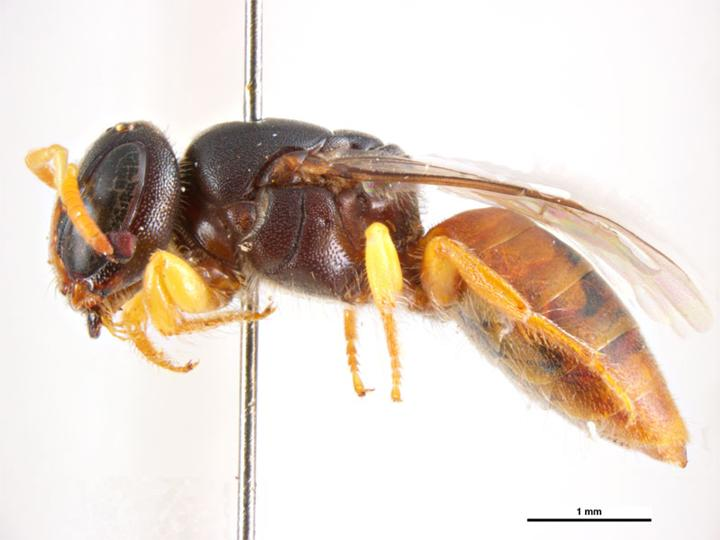 Pachyprosopis sternotricha female